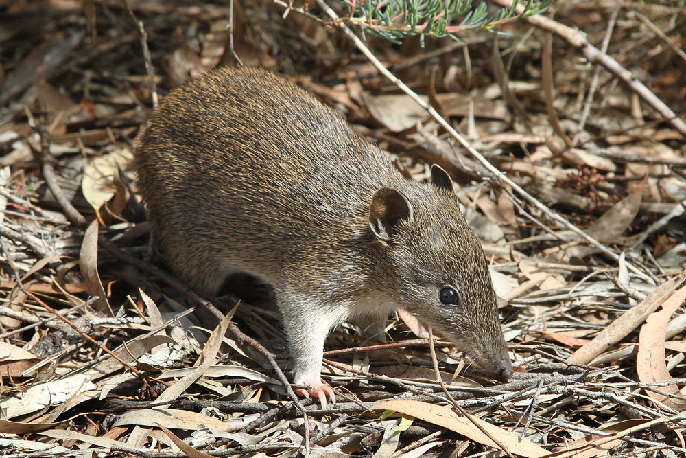 Southern brown bandicoot (Isoodon obesulus) in the Royal Botanic Gardens, Cranbourne, Victoria, Australia.